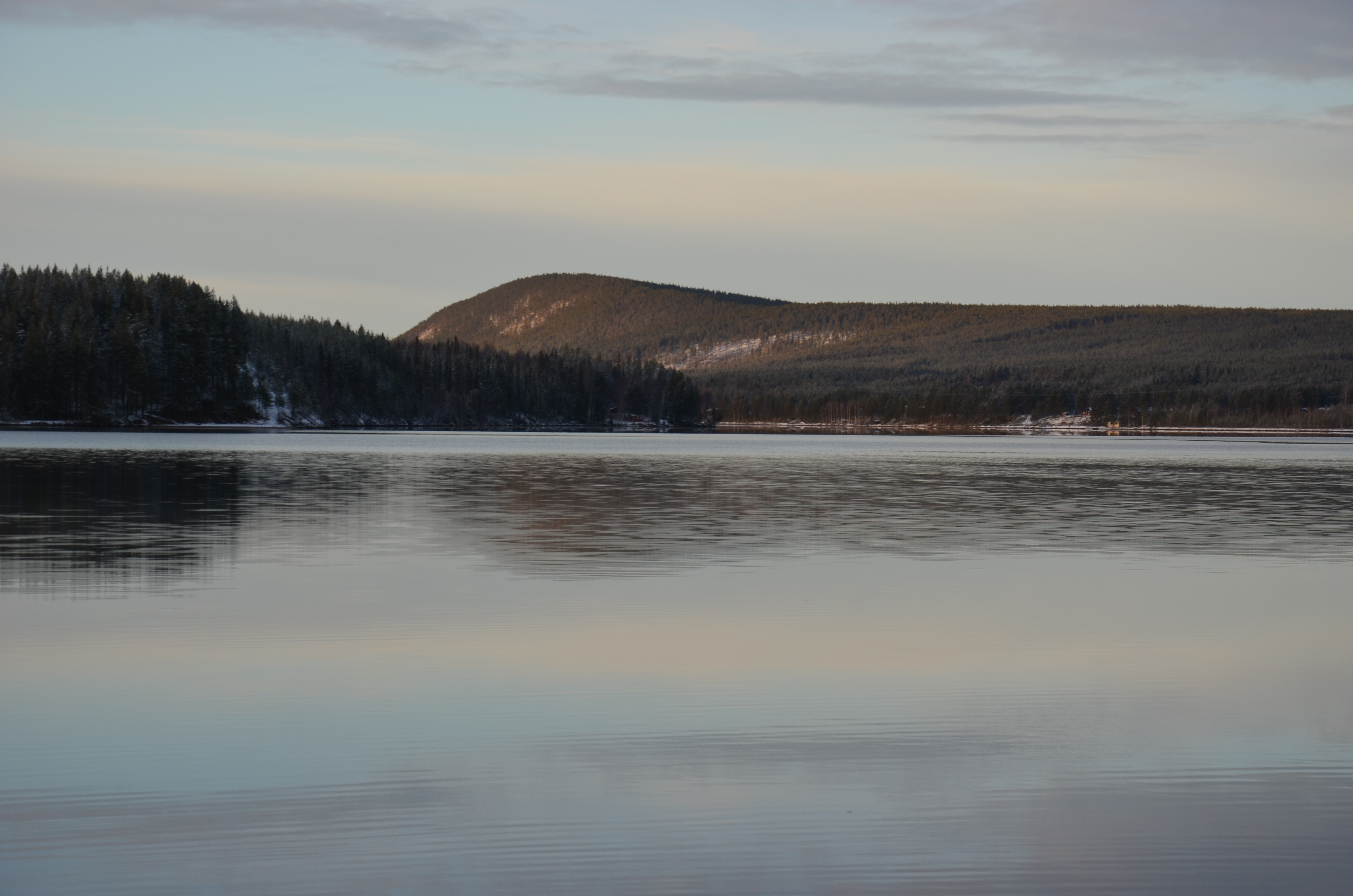 Luleälven och Porsidammen uppströms från Porsudden nordost om Vuollerim